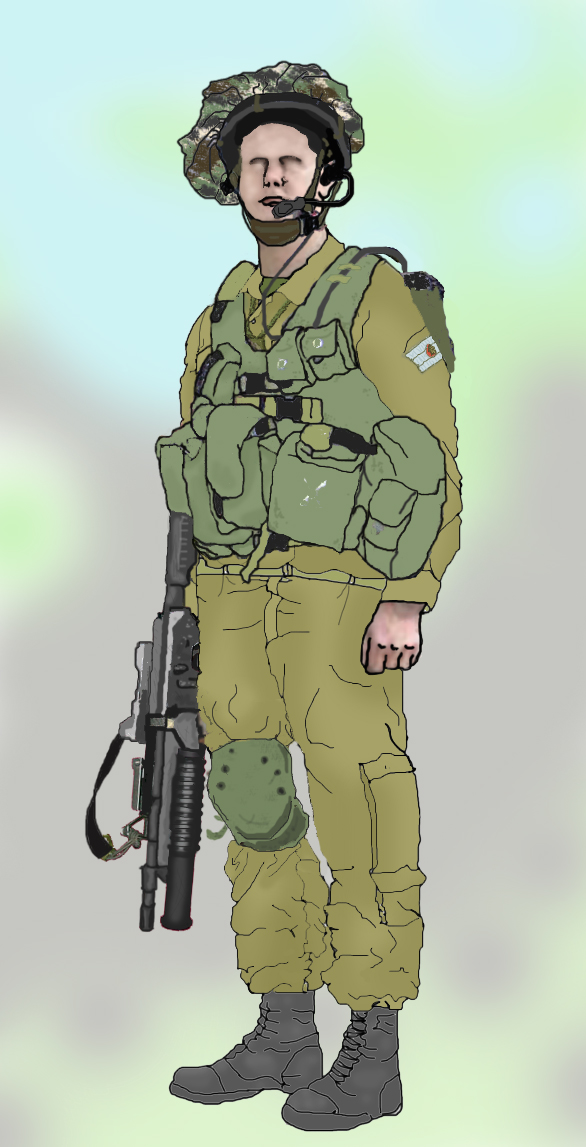 IDF battle dress & gear of a "Golani Brigade" soldier.